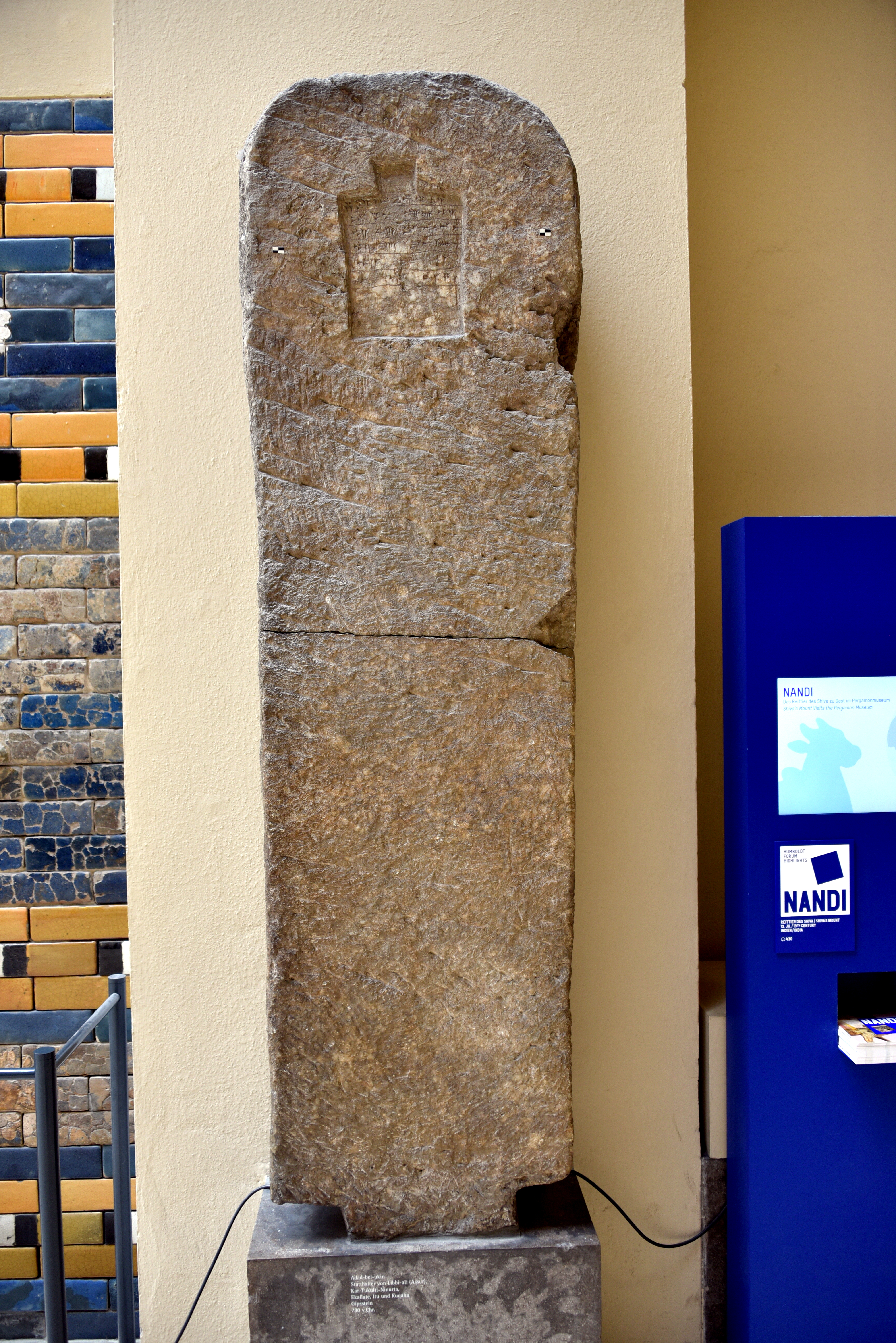 Detail (showing the cuneiform inscription) of the gypsum stele of Adad-bel ukin, governor of the cities of Libbi-ali (Assur), Kar-Tukulti-Ninurta (modern Tulul ul Aqar), Ekallatum, Itu, and Ruhaqu. From the Rows of Stelae (Stelenreihen) at Assur, Iraq. 780 BCE. Pergamon Museum, Berlin, Germany.